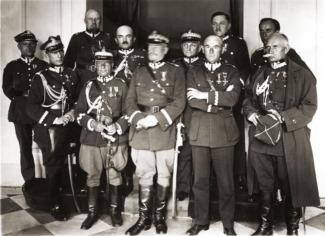 Generals of the Polish Army 1926. First row from the left: gen. Mieczysław Norwid-Neugebauer, gen. Jan Romer, gen. Lucjan Żeligowski, gen. Edward Rydz-Śmigły, gen. Aleksander Osiński. Second row from the left: NN, mjr Aleksander Prystor, gen. Józef Rybak, gen. Leonard Skierski, gen. Tadeusz Piskor, płk Tadeusz Kasprzycki.